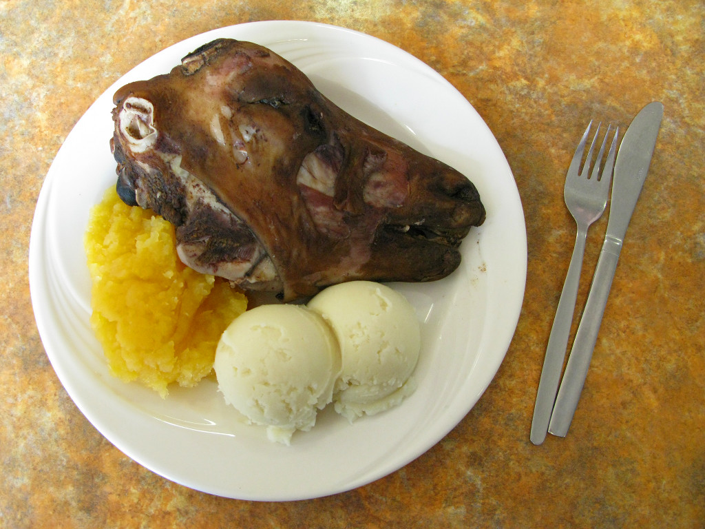 Svið: a sheep's head, sawed in half, singed and then cooked (with the brain removed), served with mashed turnips and mashed potatoes (the balls). Taken at BSÍ, Reykjavík, and then eaten.